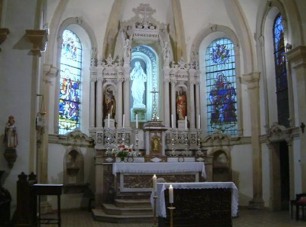 interior of church (Vgy-France)